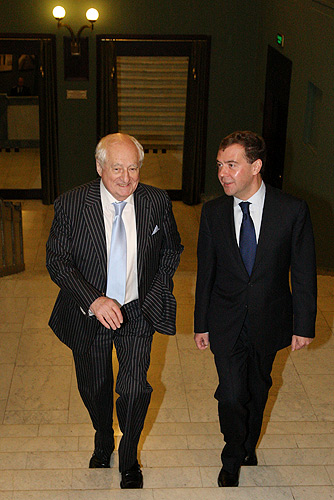 LENKOM THEATRE, MOSCOW. With the theatre's artistic director Mark Zakharov.